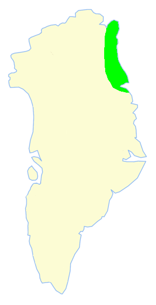 Map showing the position of the King Frederic VIII Land in Greenland.